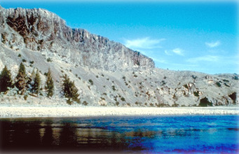 Wild and Scenic John Day River, Oregon, USA.